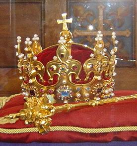 Bolesław the Brave Crown Replica.